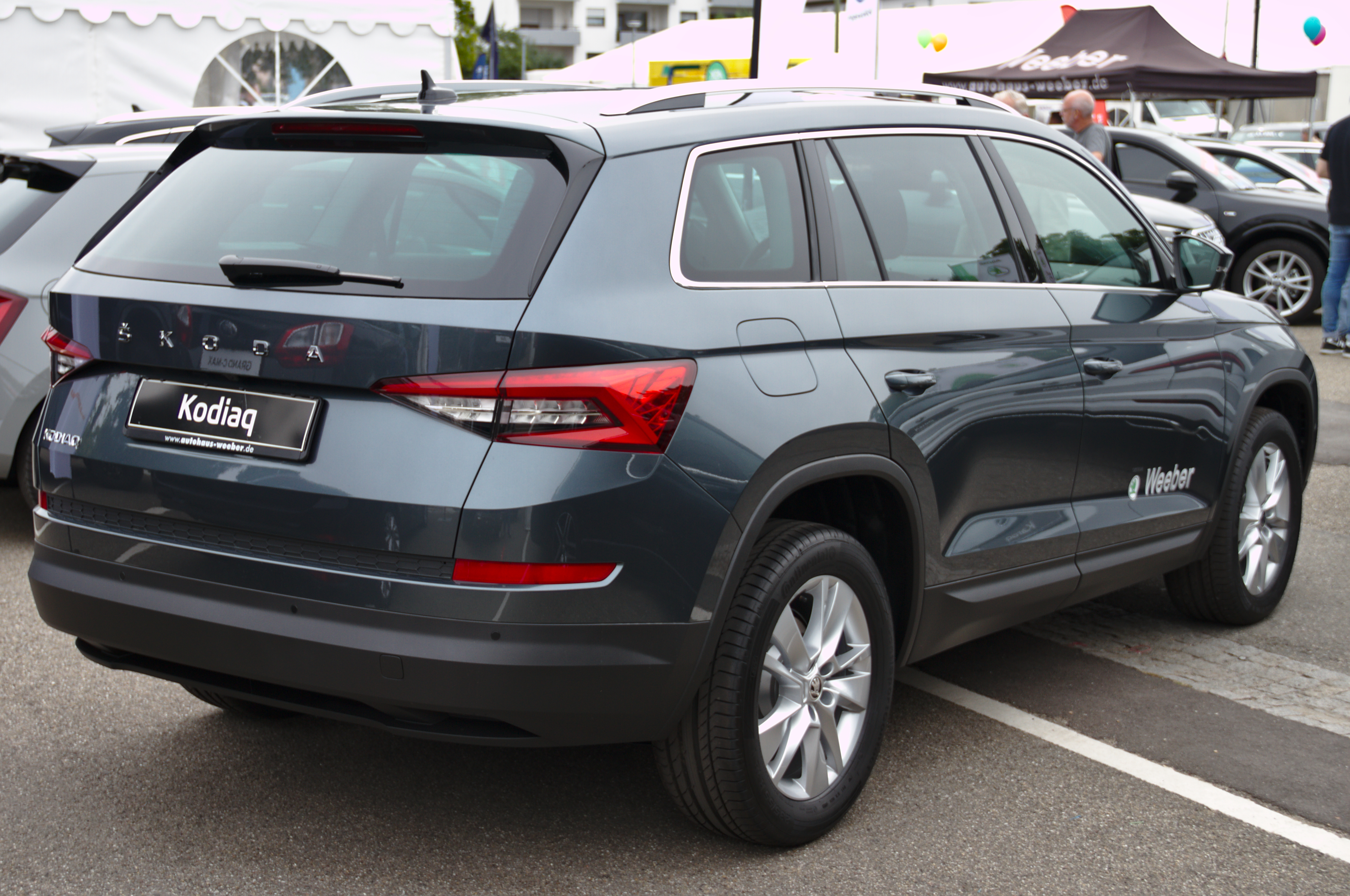 Skoda_Kodiaq at Leonberger Autoschau 2019